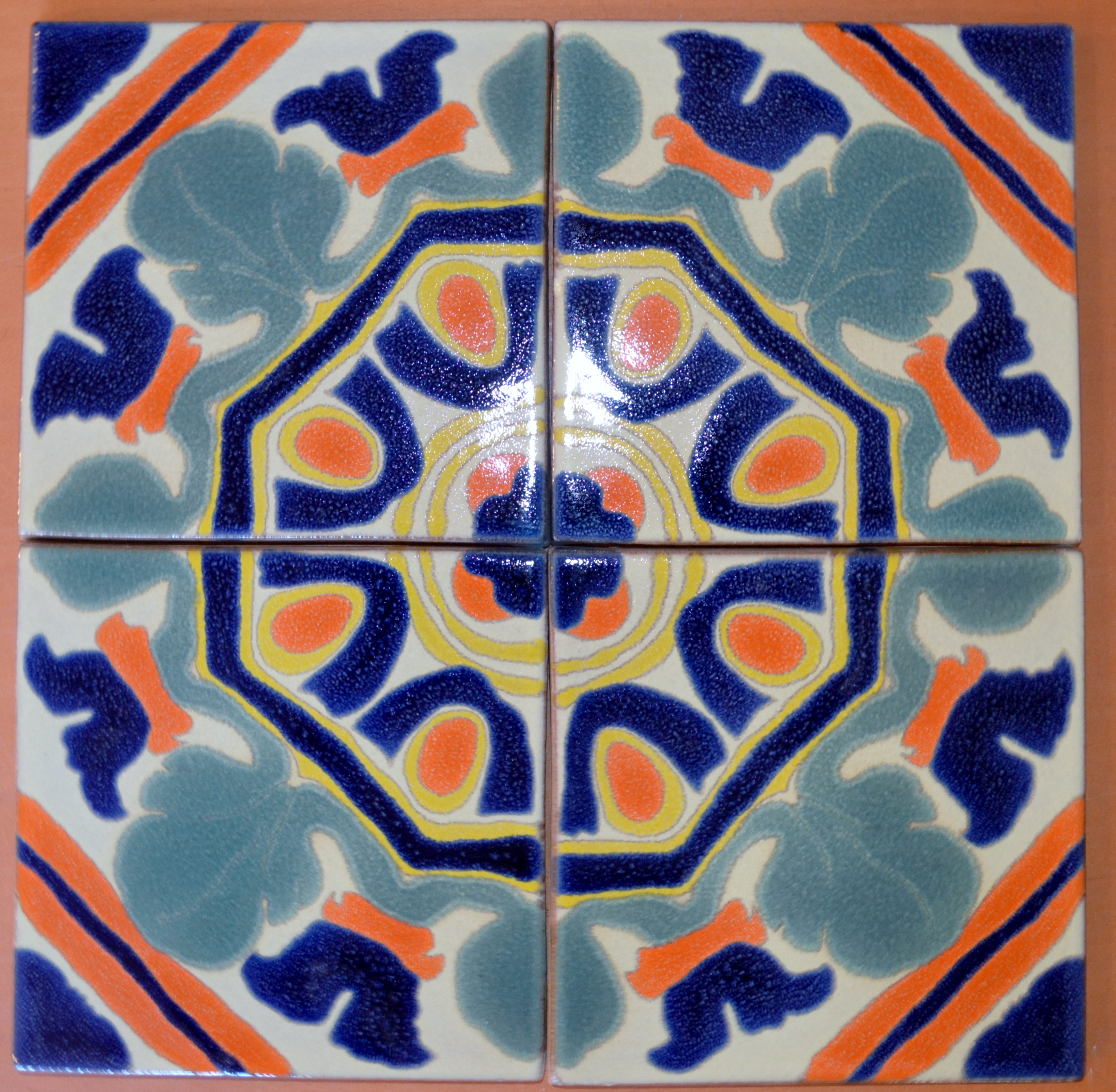 Picture of 4-tile pattern of reproduced Malibu Potteries tile Other information no